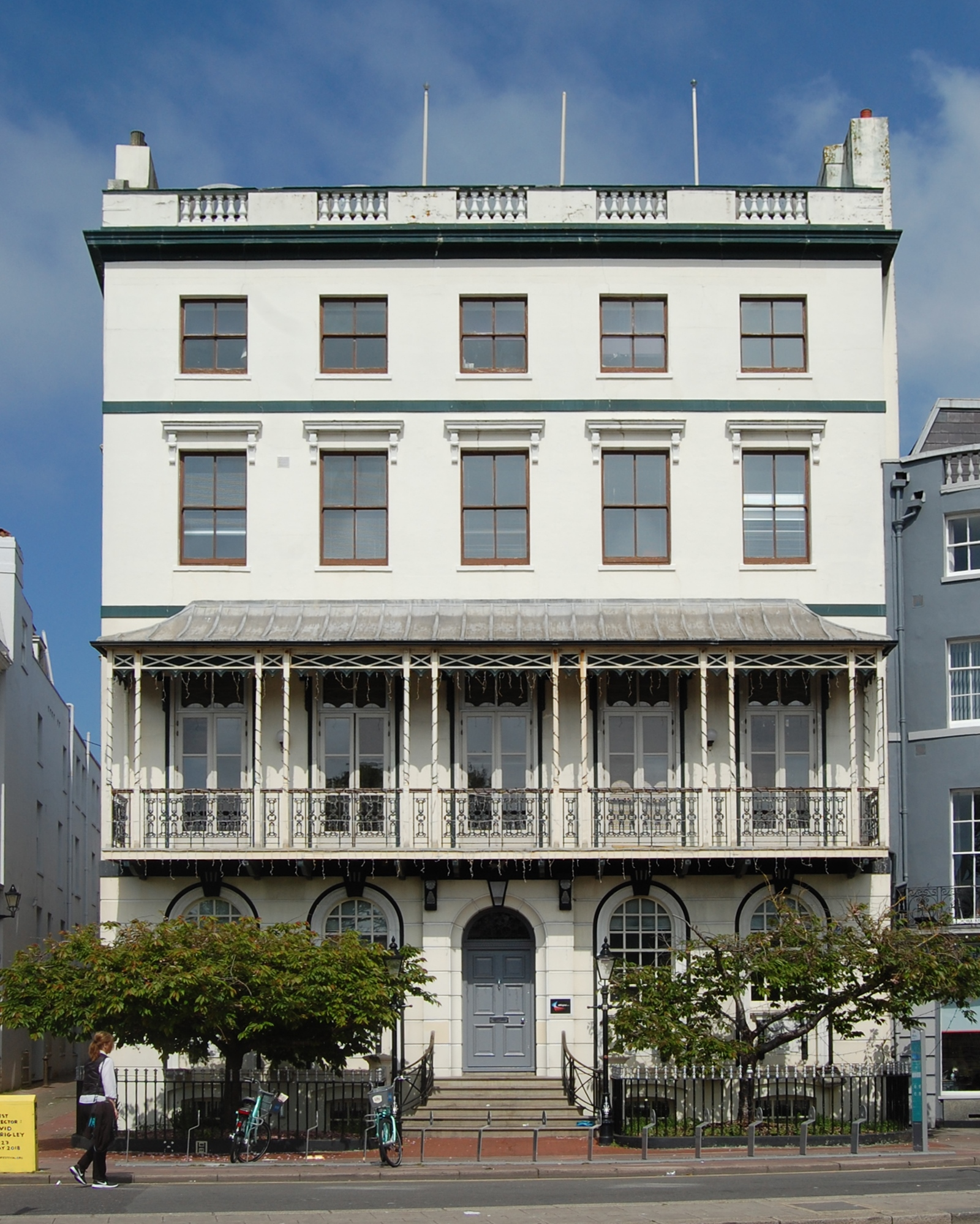 Blenheim House, 56 Old Steine, City of Brighton and Hove, England.